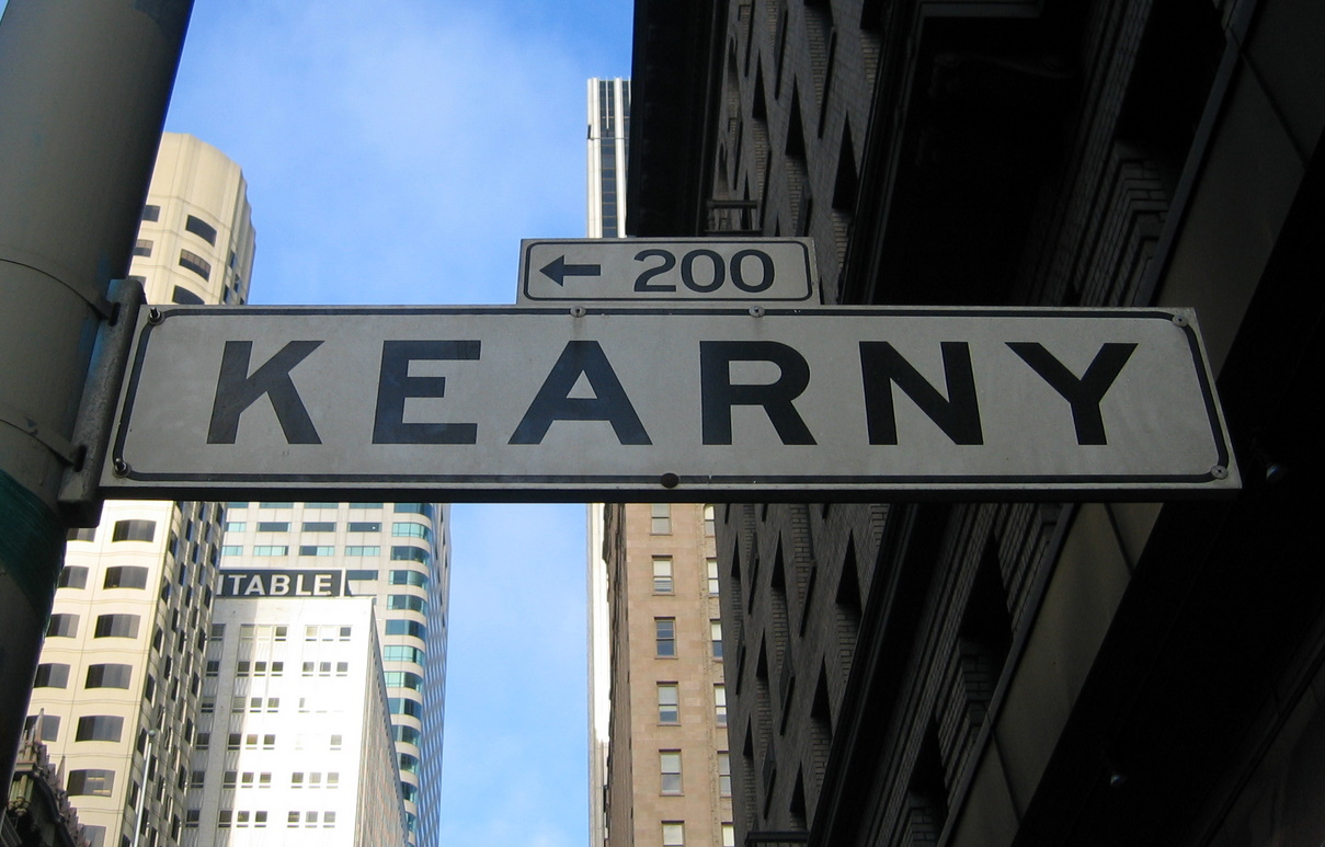 A street sign for Kearny Street in San Francisco, CA (with Sutter Street buildings in the background).